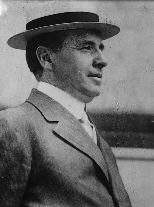 Bain News Service,, publisher. Hugh H. L. Nichols, 1/2 profile holding cigar (Correction: Hugh L. Nichols was an American politician) [between 1910 and 1915] 1 negative : glass ; 5 x 7 in. or smaller. Notes: Title from unverified data provided by the Bain News Service on the negatives or caption cards. Forms part of: George Grantham Bain Collection (Library of Congress). Format: Glass negatives. Repository: Library of Congress, Prints and Photographs Division, Washington, D.C. 20540 USA, General information about the Bain Collection is available at Persistent URL: Call Number: LC-B2- 2588-14